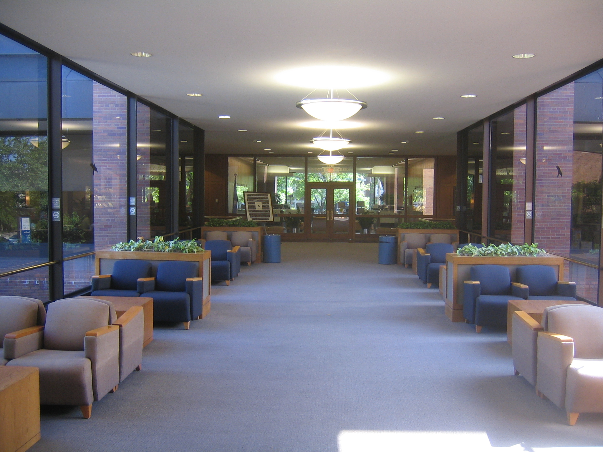 Photo of CWRU Law School's "Bridge"